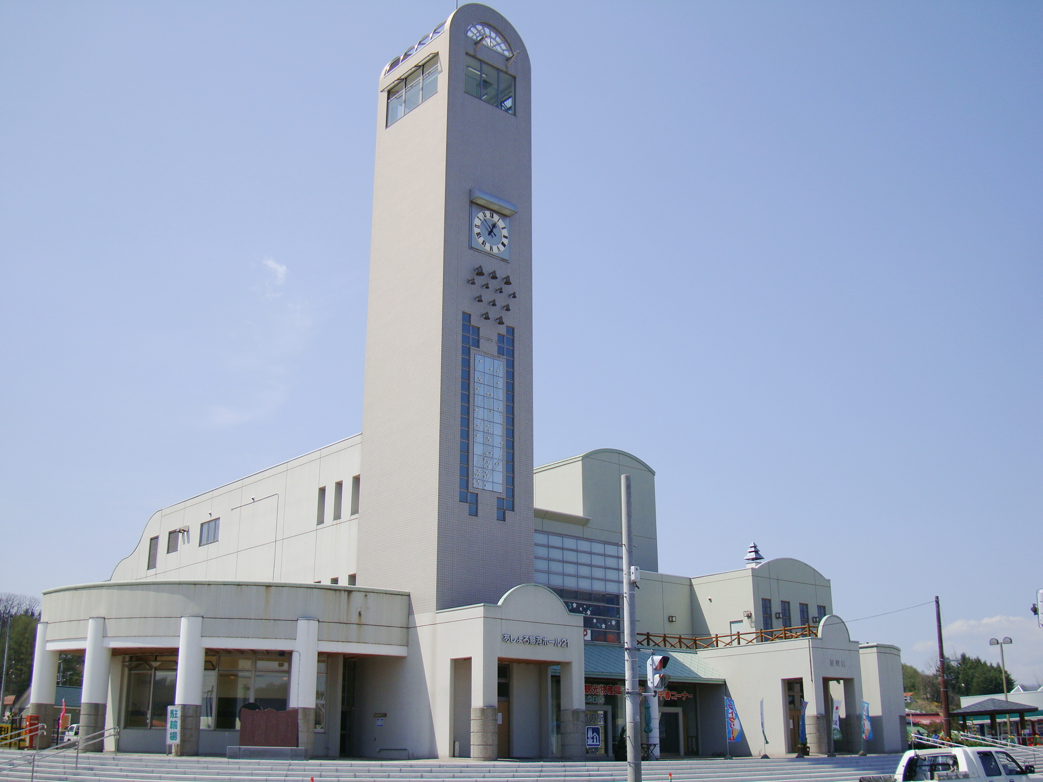 Michinoeki Ashoro Ginga Hall 21, formerly Ashoro Station on the Furusato Ginga Line of Hokkaido Chihoku Kogen Railway